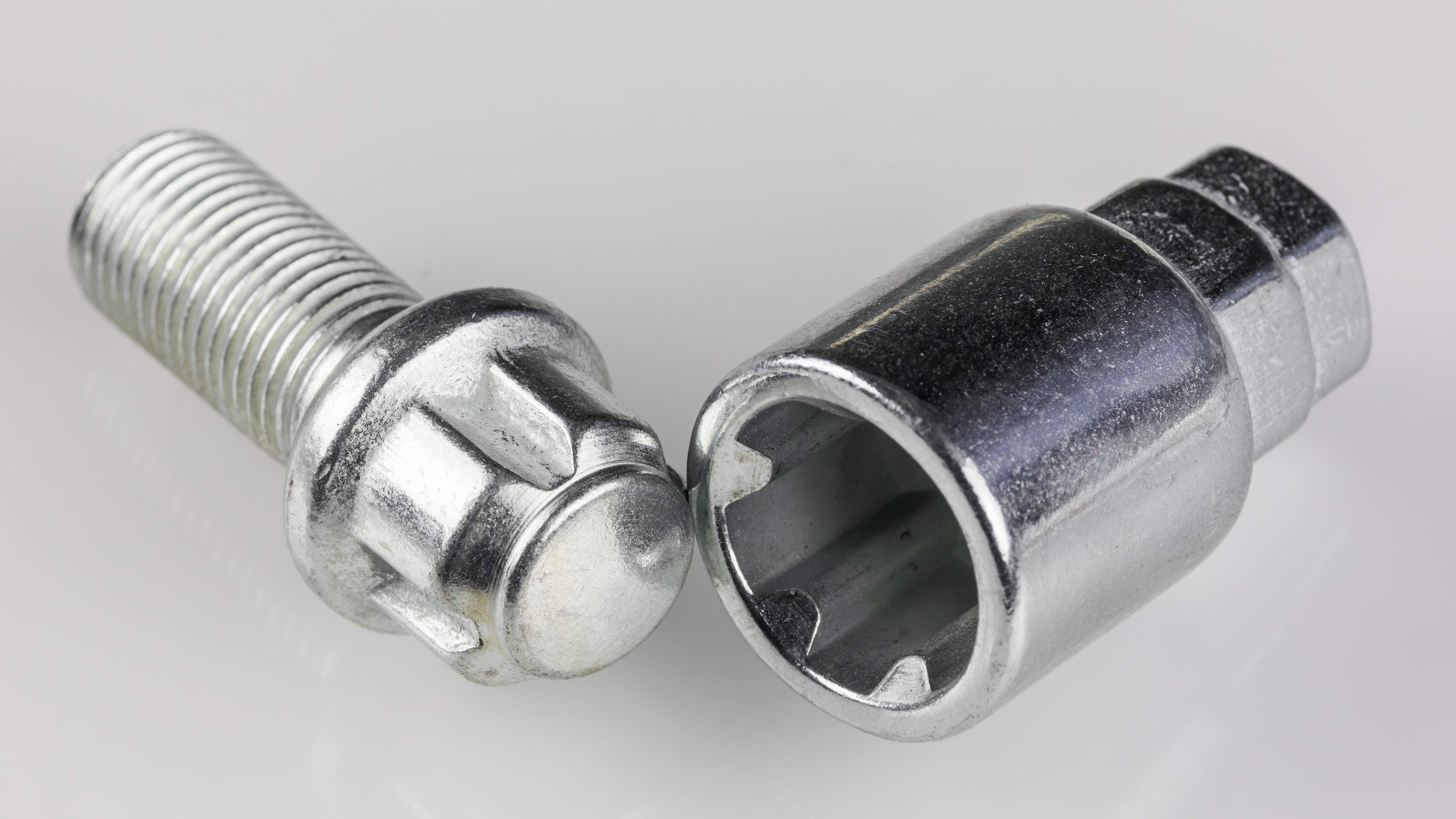 Spherical wheel lock M14 x 1,5 x 27 mm and wheel lock adapter with external hexagonal drive 19 mm and 17 mm AF